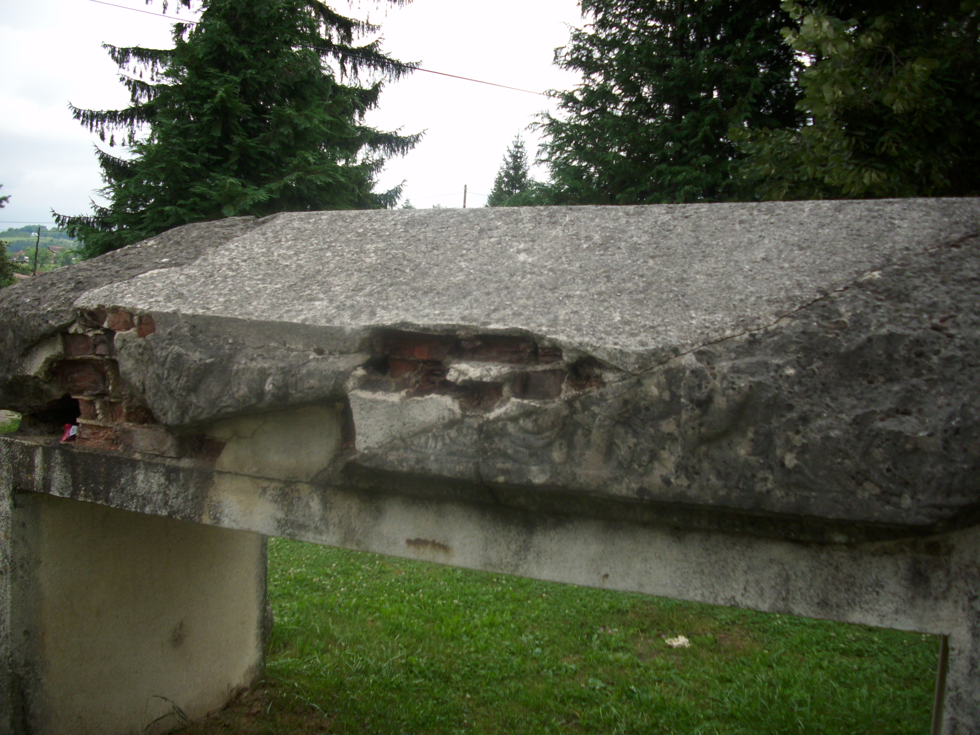 Sarcophagus in Šipovo